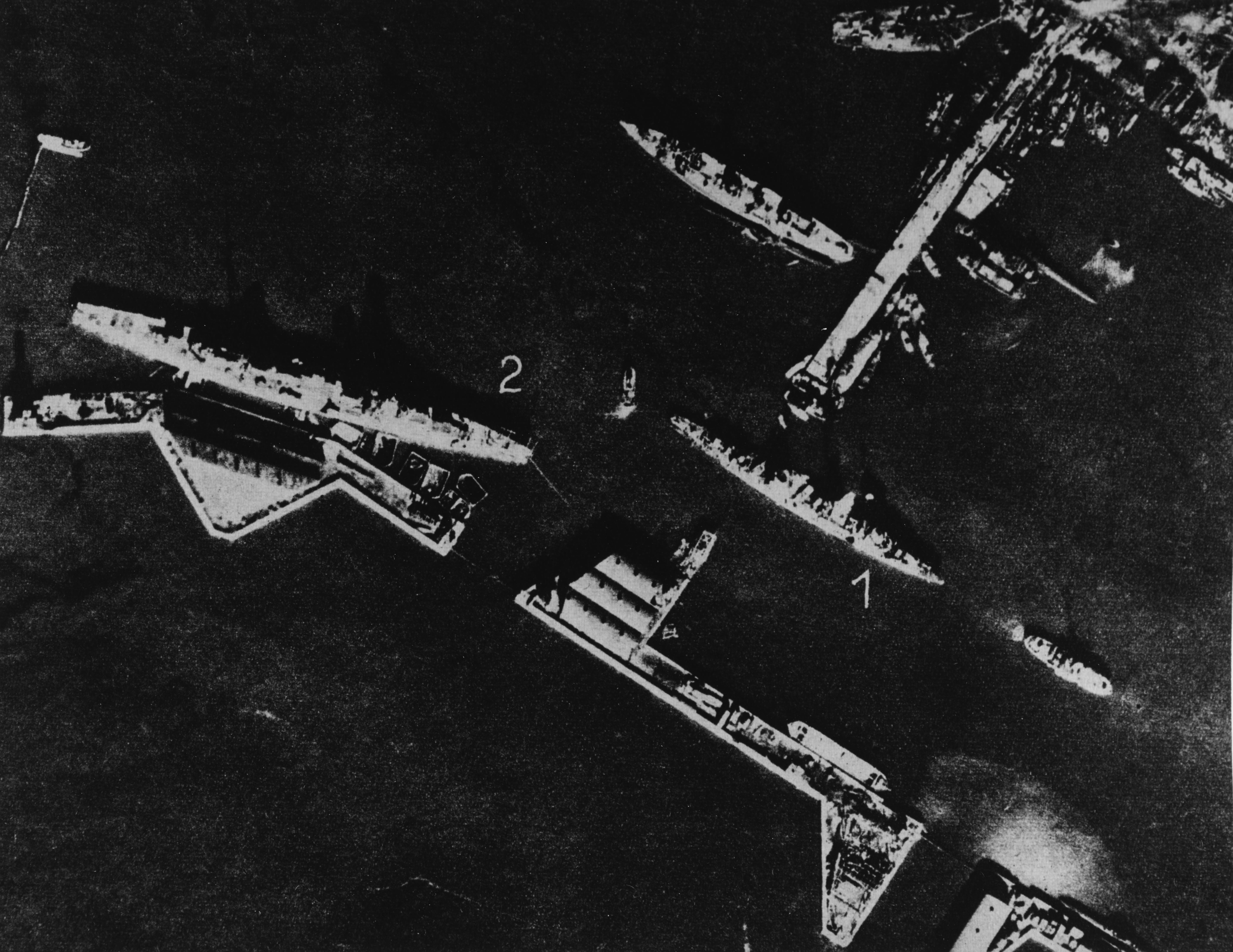 German aerial photograph of heavy cruiser Kirov and a Leningrad-class destroyer